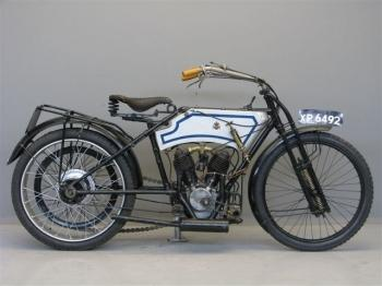 Rex motorcycle 650 cc 5½ hp 1907.